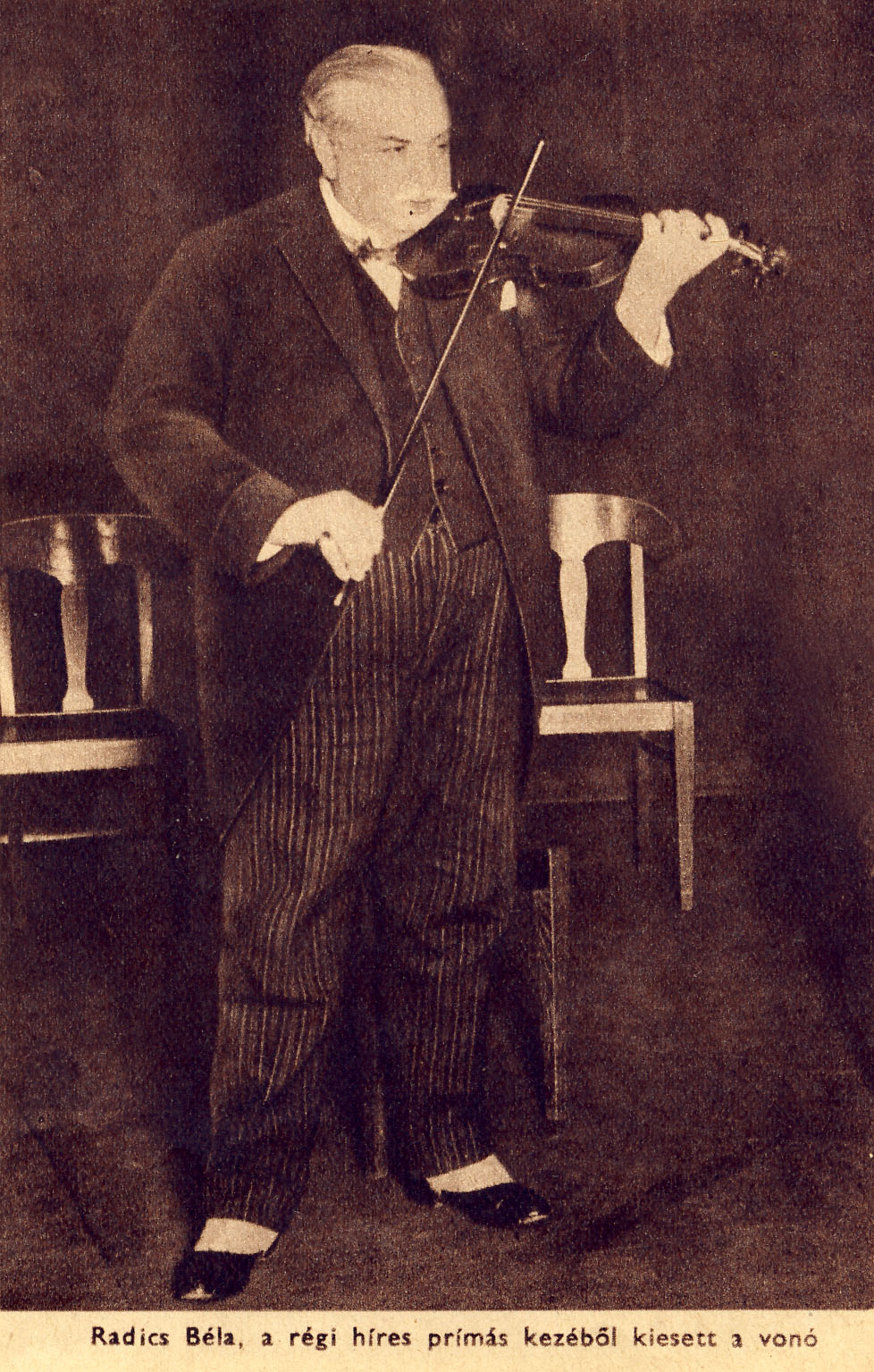 Béla Radics all of a Gypsy primate's figural photograph.